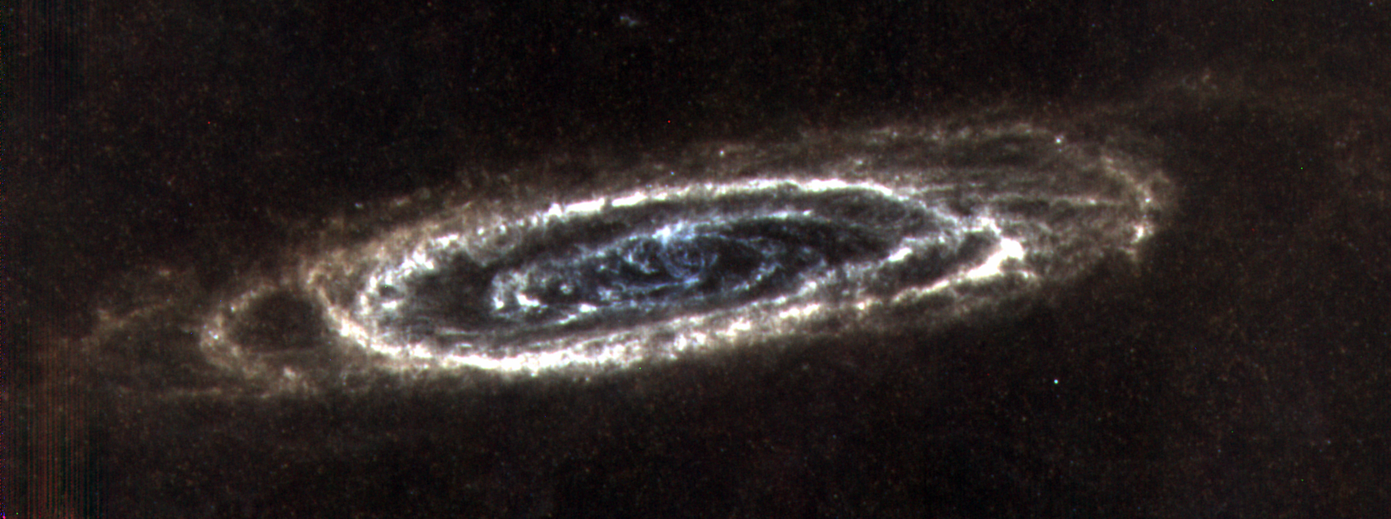 Andromeda Galaxy observed in the far infrared by Herschel. Further details can be found in Herschel is an ESA space observatory with science instruments provided by European-led Principal Investigator consortia and with important participation from NASA. The observations performed with the ESA Herschel Space Observatory (Pilbratt et al. 2010), in particular employing Herschel's large telescope and powerful science instrument SPIRE (Griffin et al. 2010). Pilbratt, G.L., Riedinger, J.R., Passvogel, T. et al. 2010, A&A, 518, L1 Griffin, M.J., Abergel, A., Abreu, A. et al. 2010, A&A, 518, L3